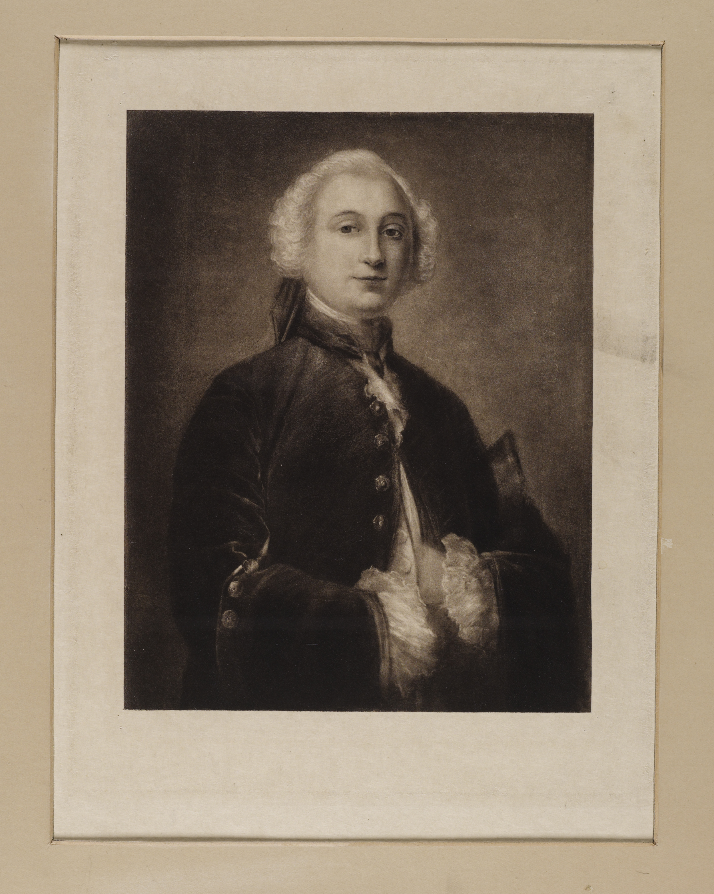 Portrait of Lord Elcho with black coat, white ruffled shirt sleeves, and hands above waist